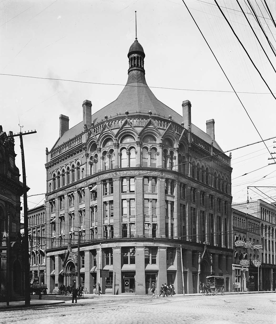 Board of Trade building : north-east corner of Yonge Street and Front Street (Toronto, Canada).